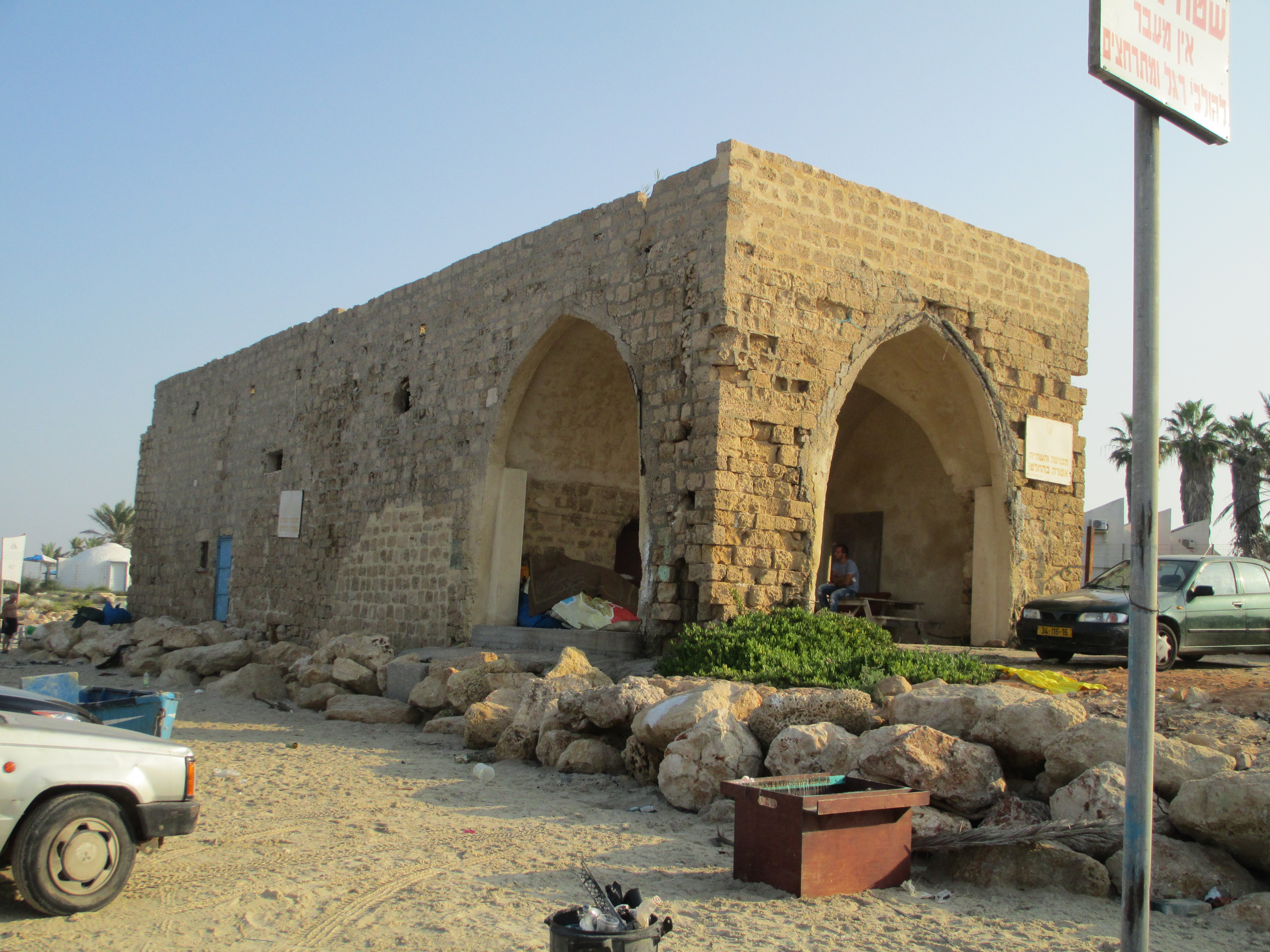 Old building from Tantura in Dor beach